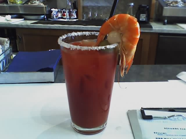 di mare: "This spectacular Bloody Mary at Pesce was heavy on the black pepper and had a whole shrimp as a garnish." (cameraphone, bloody mary, cocktail, shrimp, drink, restaurant, San Francisco, California, Pesce, prawn, food)